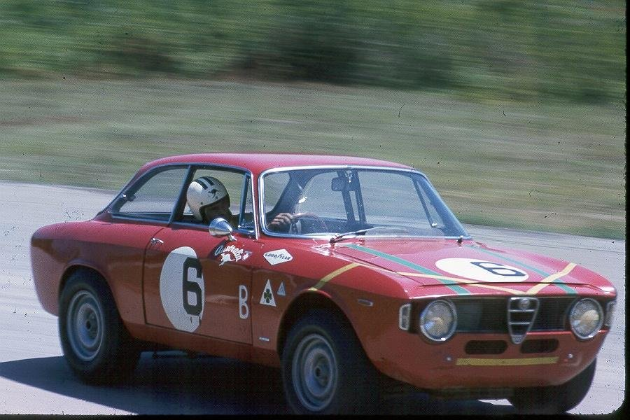 The Alfa Romeo GTA of Kwech & Andrey contesting the 1966 VIR 400, Round 4 of the 1966 Trans-Am Sedan Championship